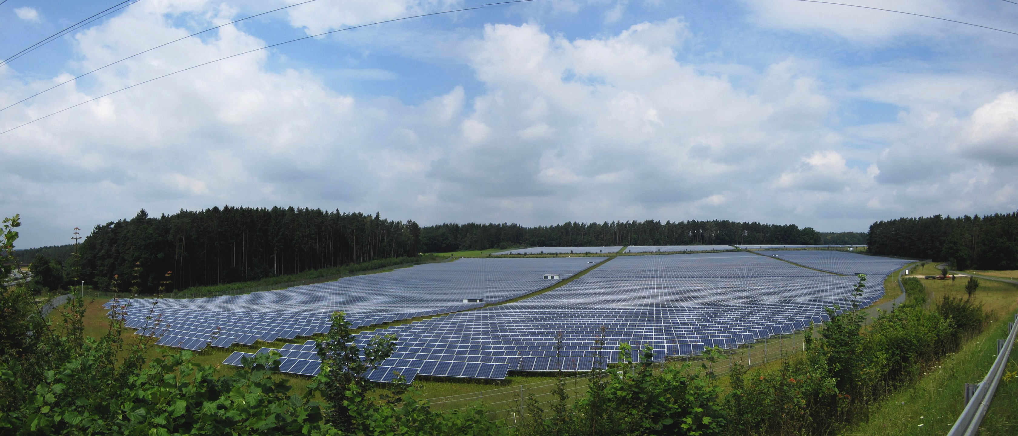 Solar power plant (part) in Weismain-Buckendorf, Franconian Jura, implemented by IBC Solar